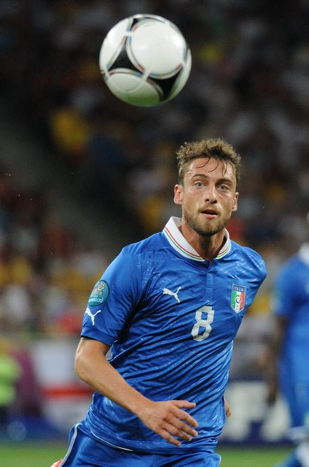 Claudio Marchisio at Euro 2012 match against England